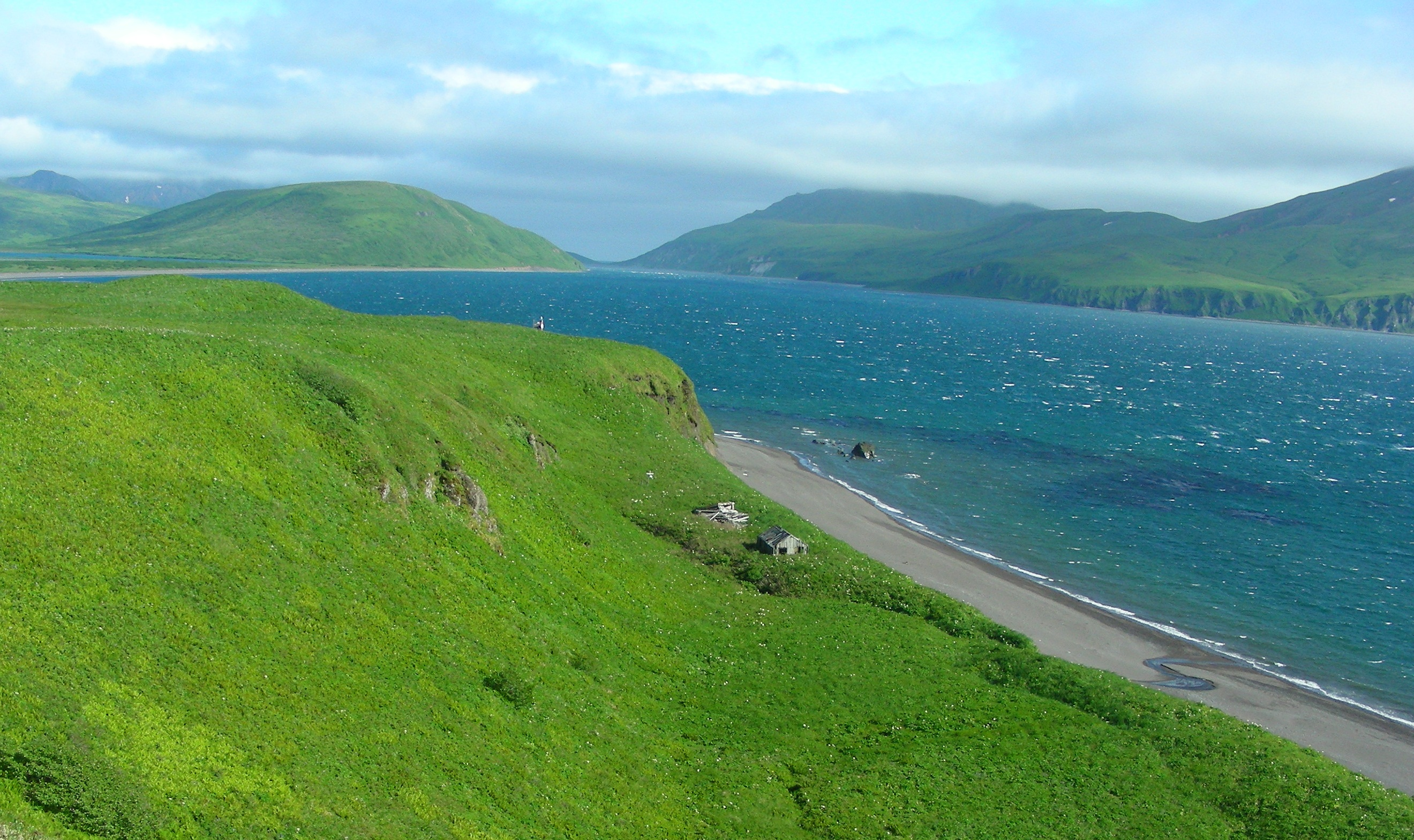 Looking north from Ikatan Bay toward the entrance to Isanotski Strait. Unimak Island is on the left and the Alaska Peninsula on the right. Here is located a navigation marker and light, directing shipping to and from Isanotski Strait. This location and homestead is locally called "Johnson's".